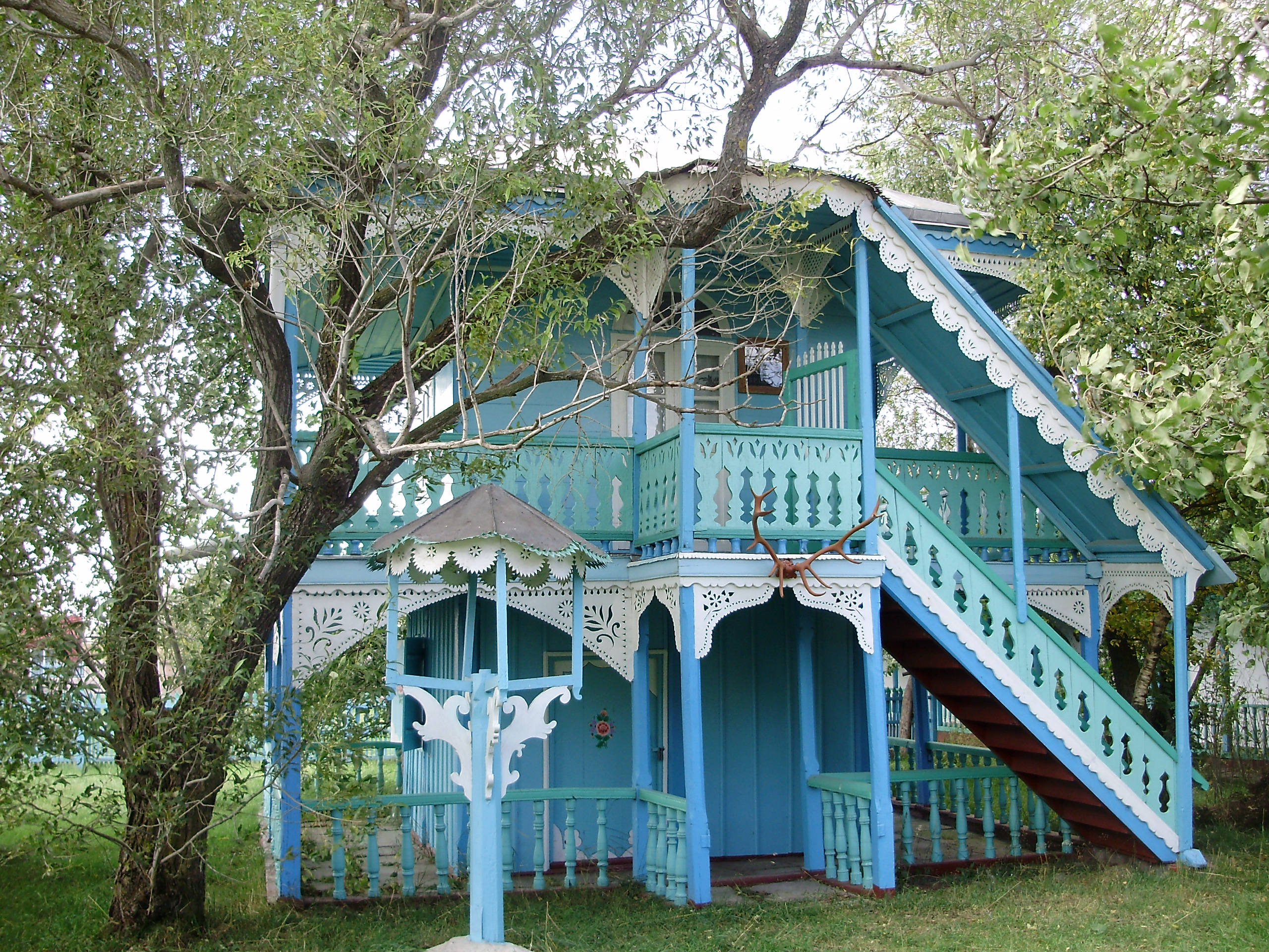 Sirotski dom, the main building of the Dukhobor spiritual complex in Gorelovka, Gerogia. Also the Dukhobor leader Petr Kalmykoff lived here. Built in 1847.